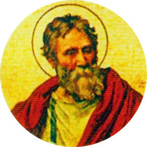 Portait of Pope Agatho in the Basilica of Saint Paul Outside the Walls, Rome